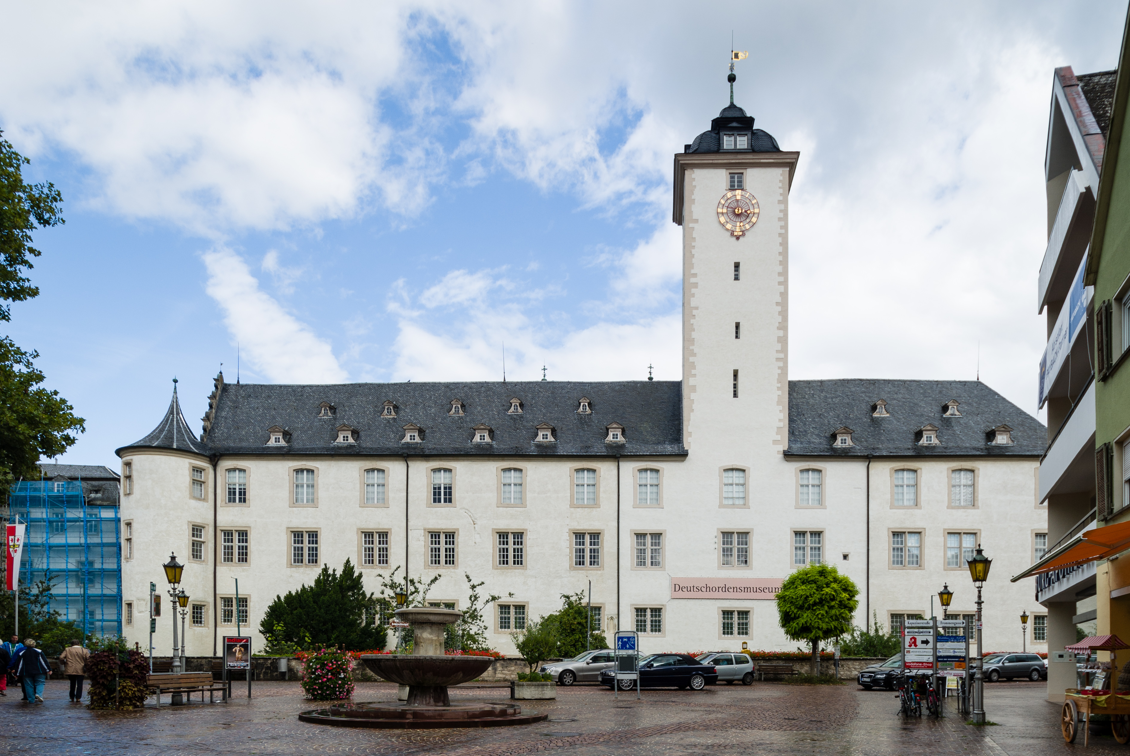 Deutschordensschloss in Bad Mergentheim